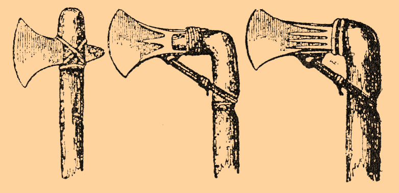 Illustration from Brockhaus and Efron Encyclopedic Dictionary (1890—1907)